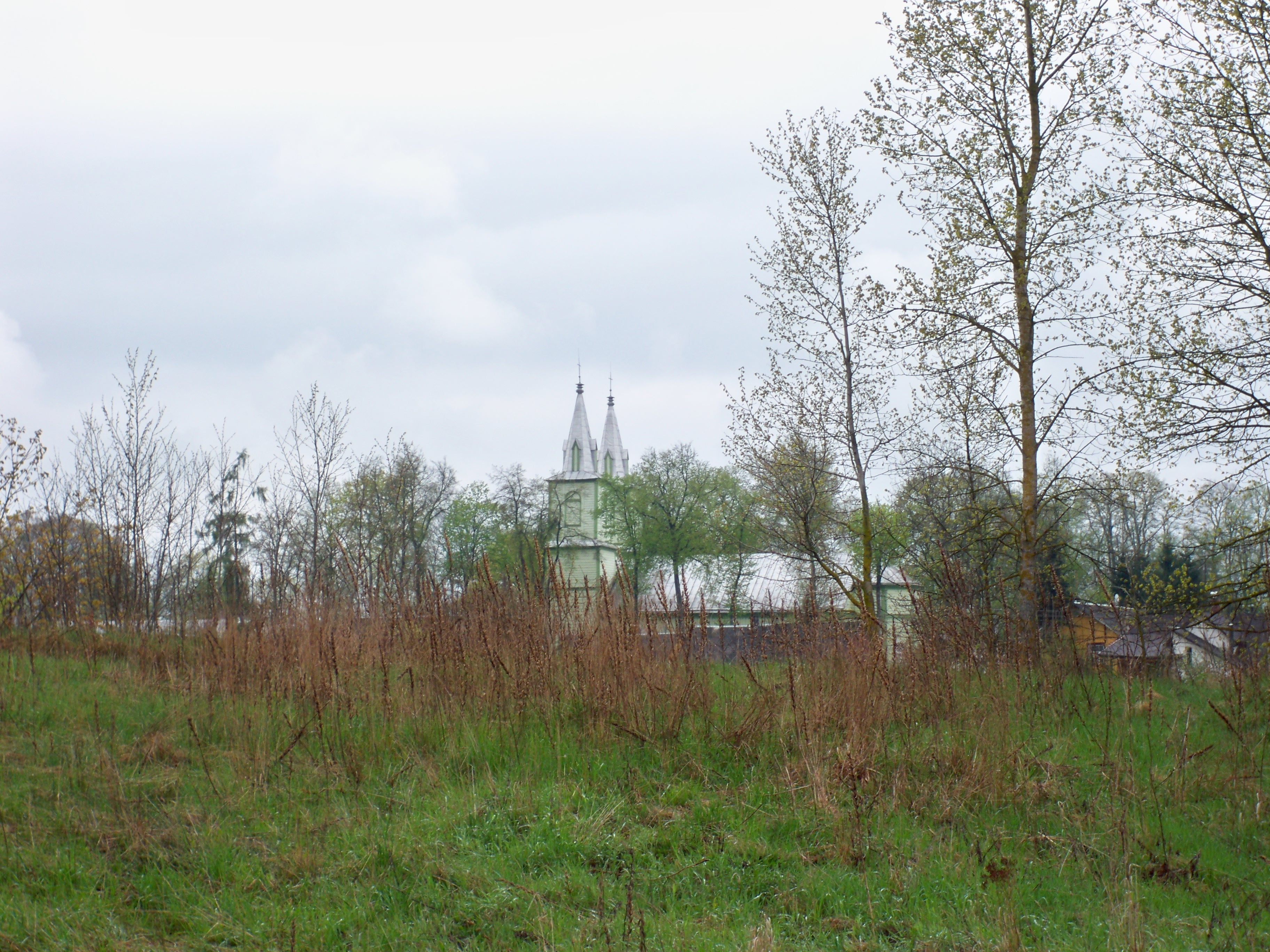 Balbieriškis castle towers